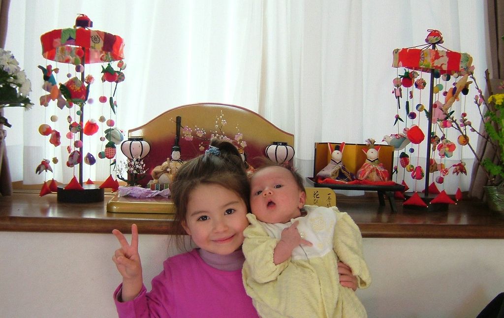 Hina matsuri doll display and girls.